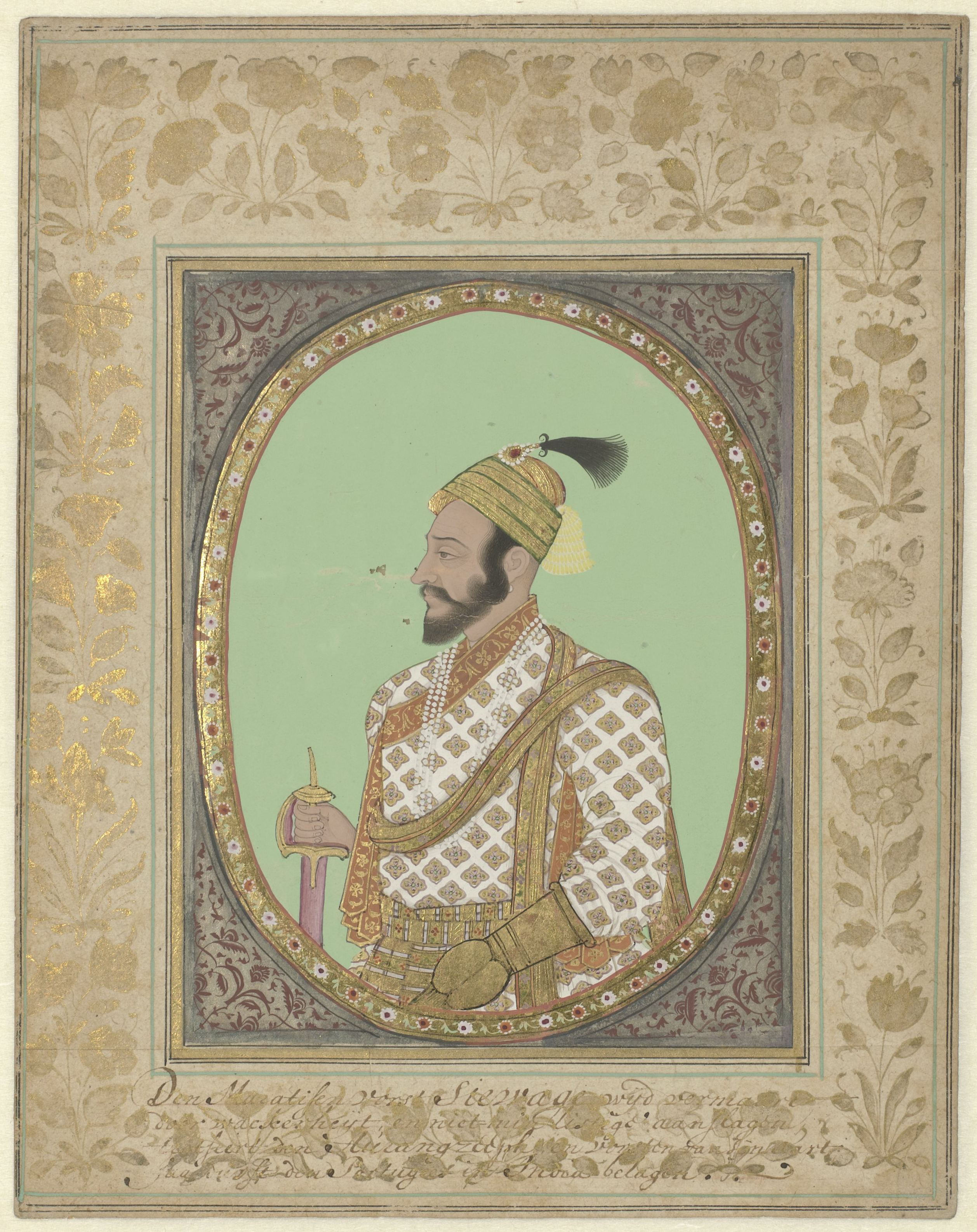 Portrait of Maratha prince Shivaji with a detailed Dutch caption on the decorated frame